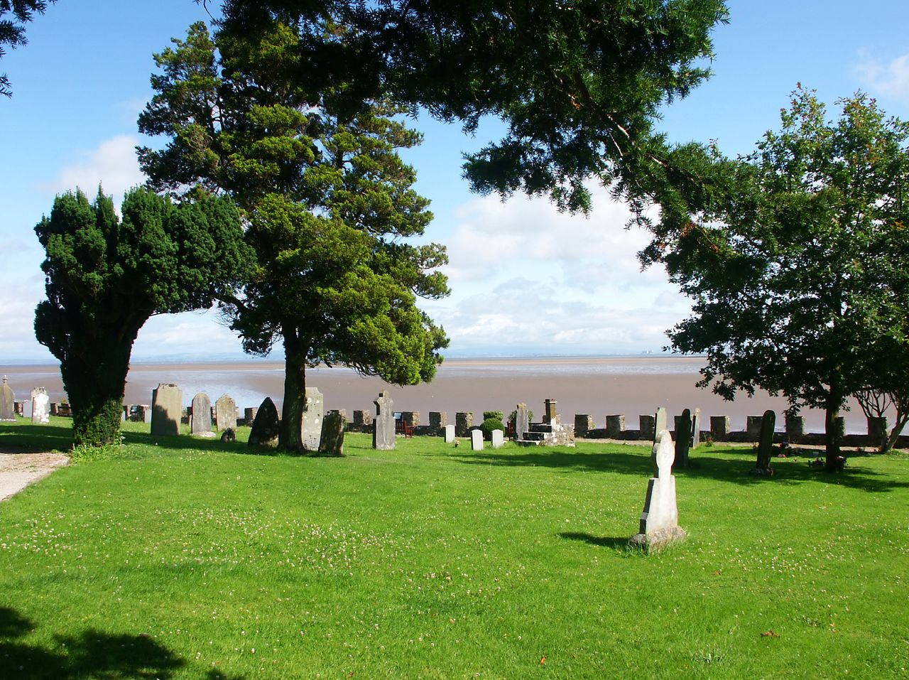 Aldingham Cemetary, in Cumbria, England